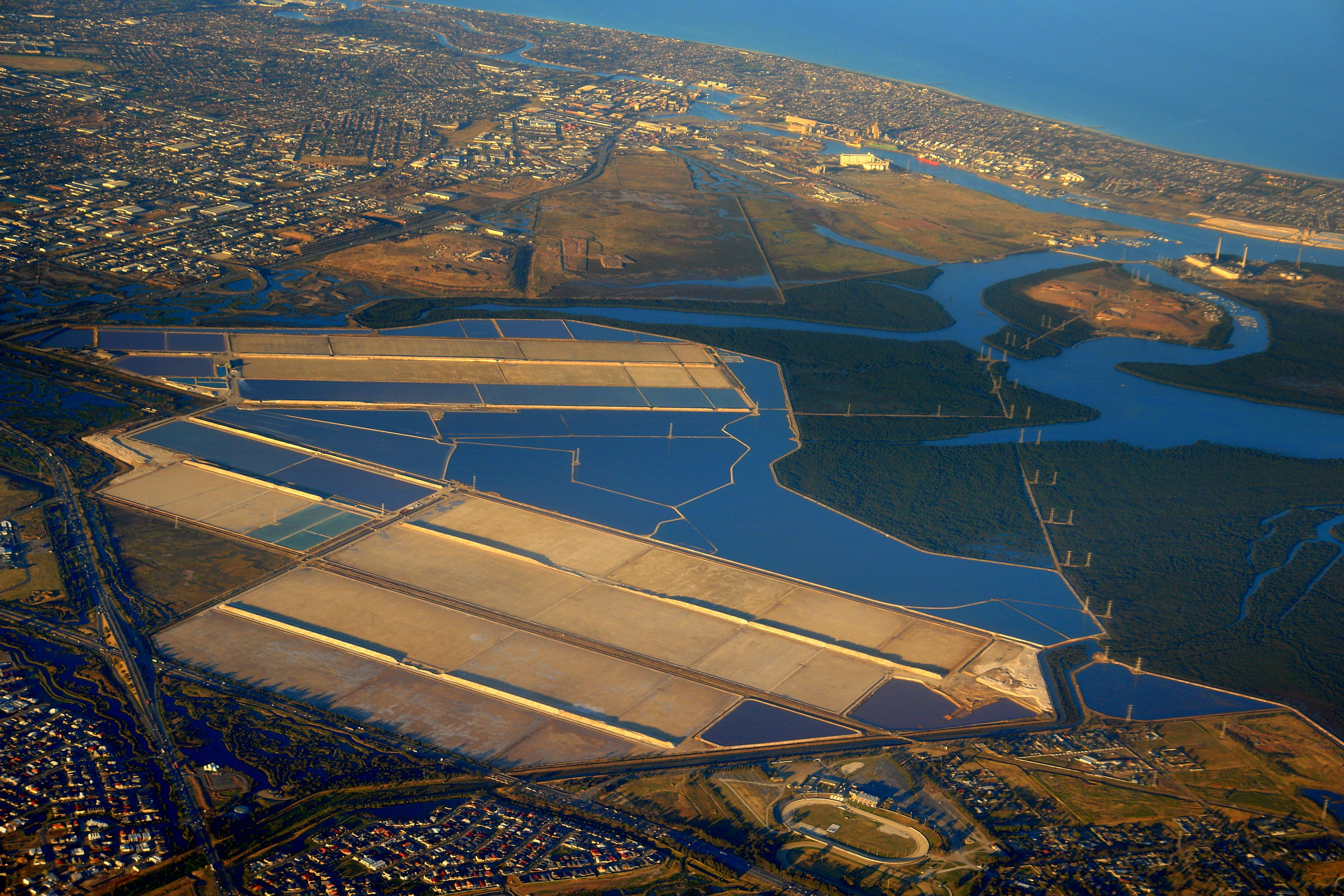 Aerial view looking WSW of part of the Port River area, showing the Globe Derby Park Trotting track, some of Mawson Lakes, the Dry Creek salt pans, Garden Island, Torrens Island (including the power station, Quarantine Station, and Concentration Camp), Gillman, some of the Lefevre Peninsula, and some of Port Adelaide